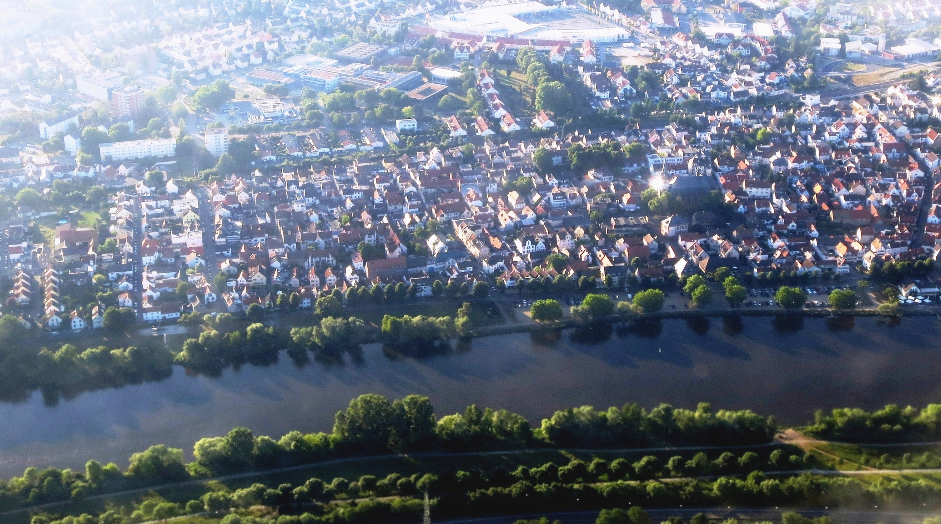 Aerial view over a little part of Flörsheim municipality, on Main river, Germany